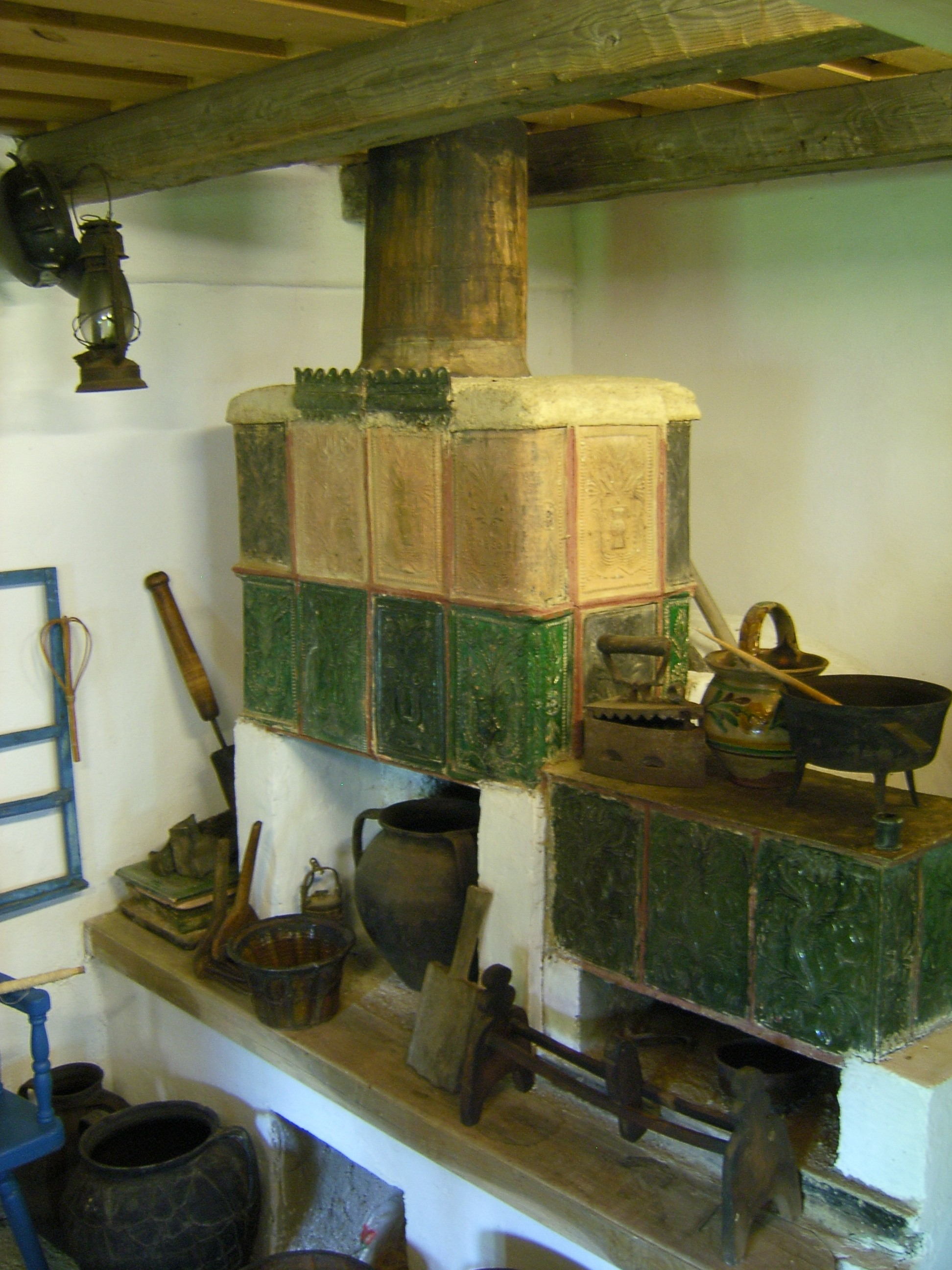 Stove in Mănăstireni, Transylvania